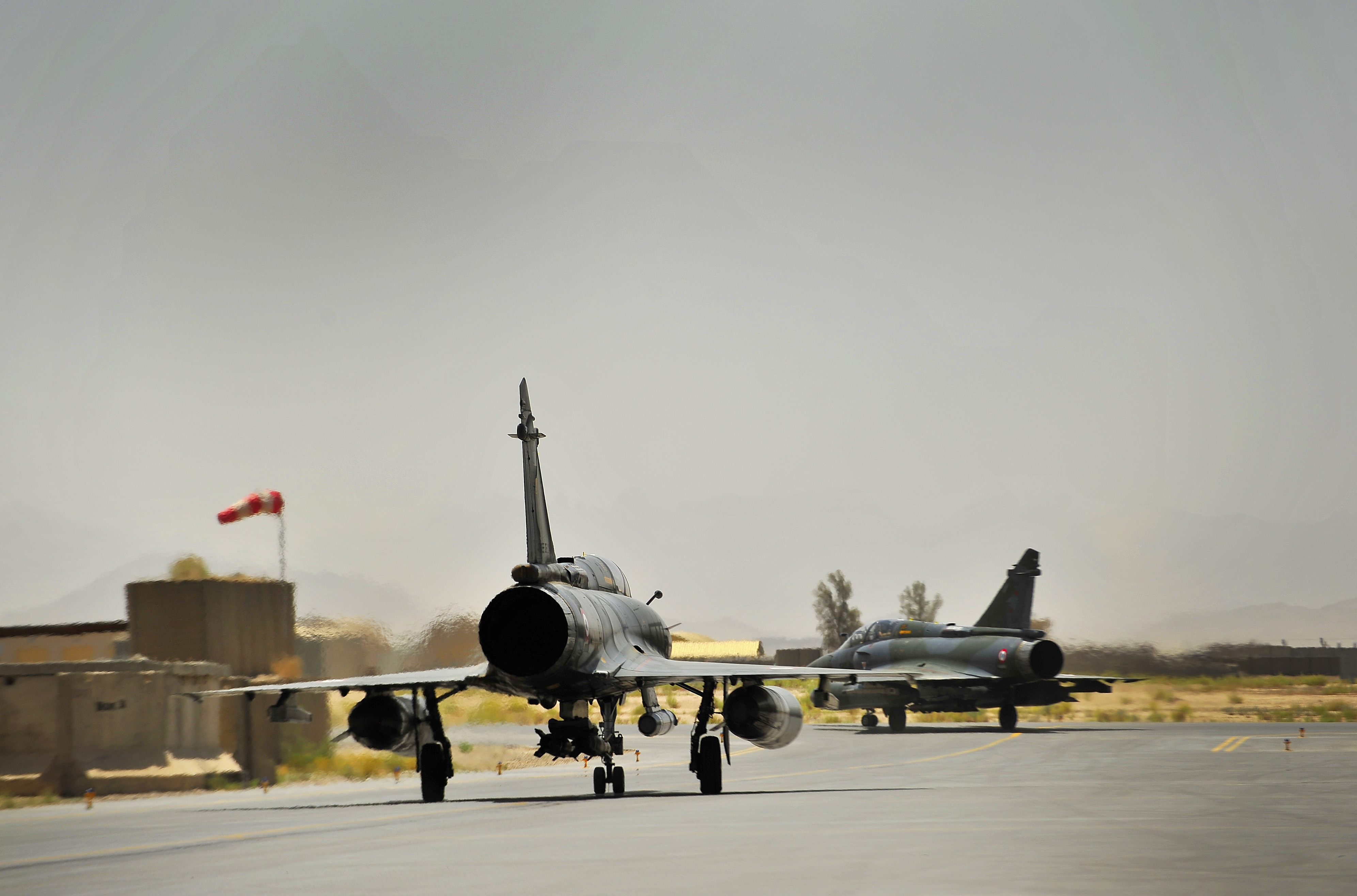 Members of the French Air Force, Detachment 3/3, taxi towards a takeoff point in the French's Mirage 2000-D before a combat mission at Kandahar Airfield, Afghanistan, June 15, 2012. The French AF has been a coalition partner with the U.S. during Operation Enduring Freedom (OEF) and perform air to ground close air support missions for friendly ground forces.